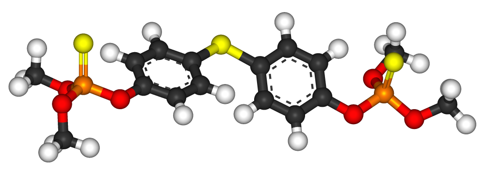 Ball-and-stick model of temefos. Created using Accelrys DS Visualizer Pro 1.6 and GIMP.